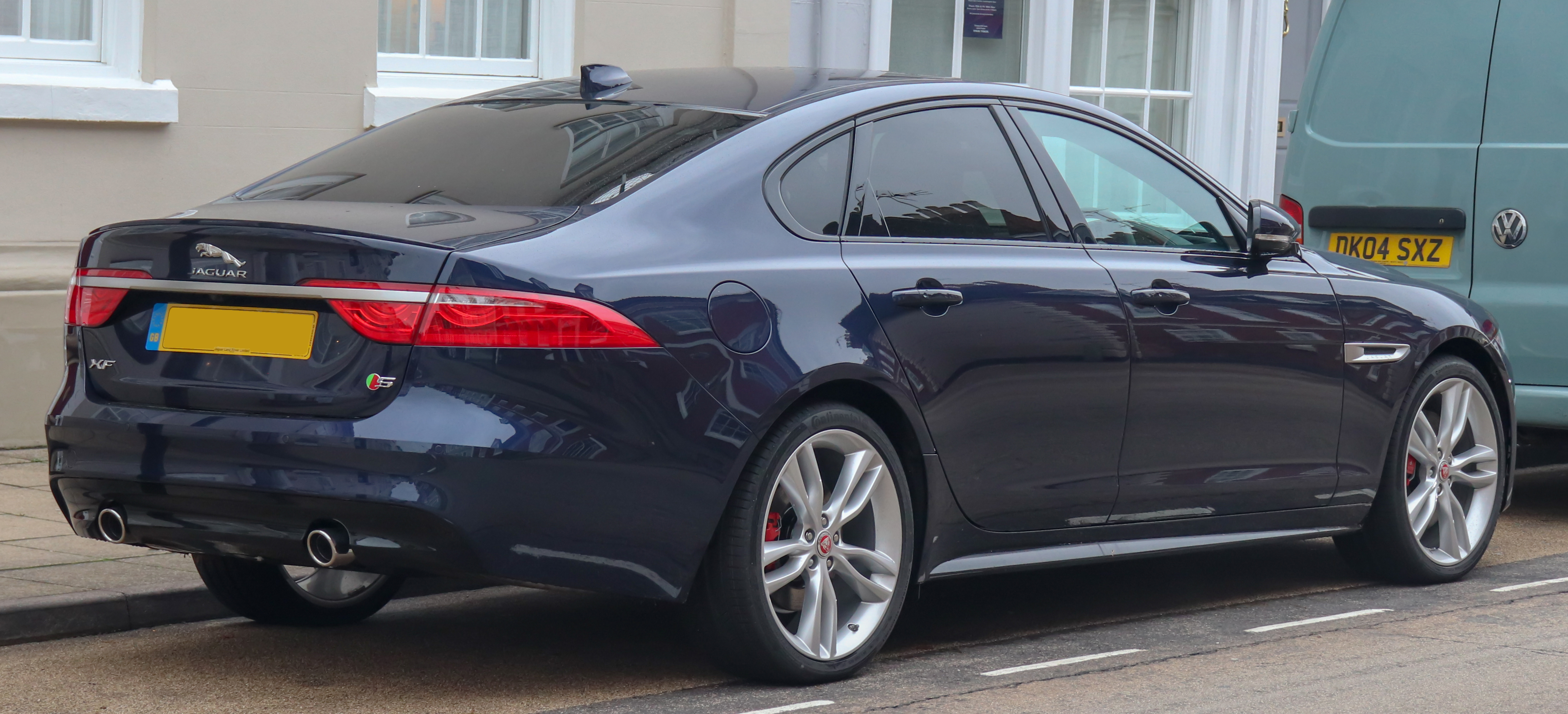 2018 Jaguar XF V6 S Diesel Automatic 3.0 Rear Taken in Warwick